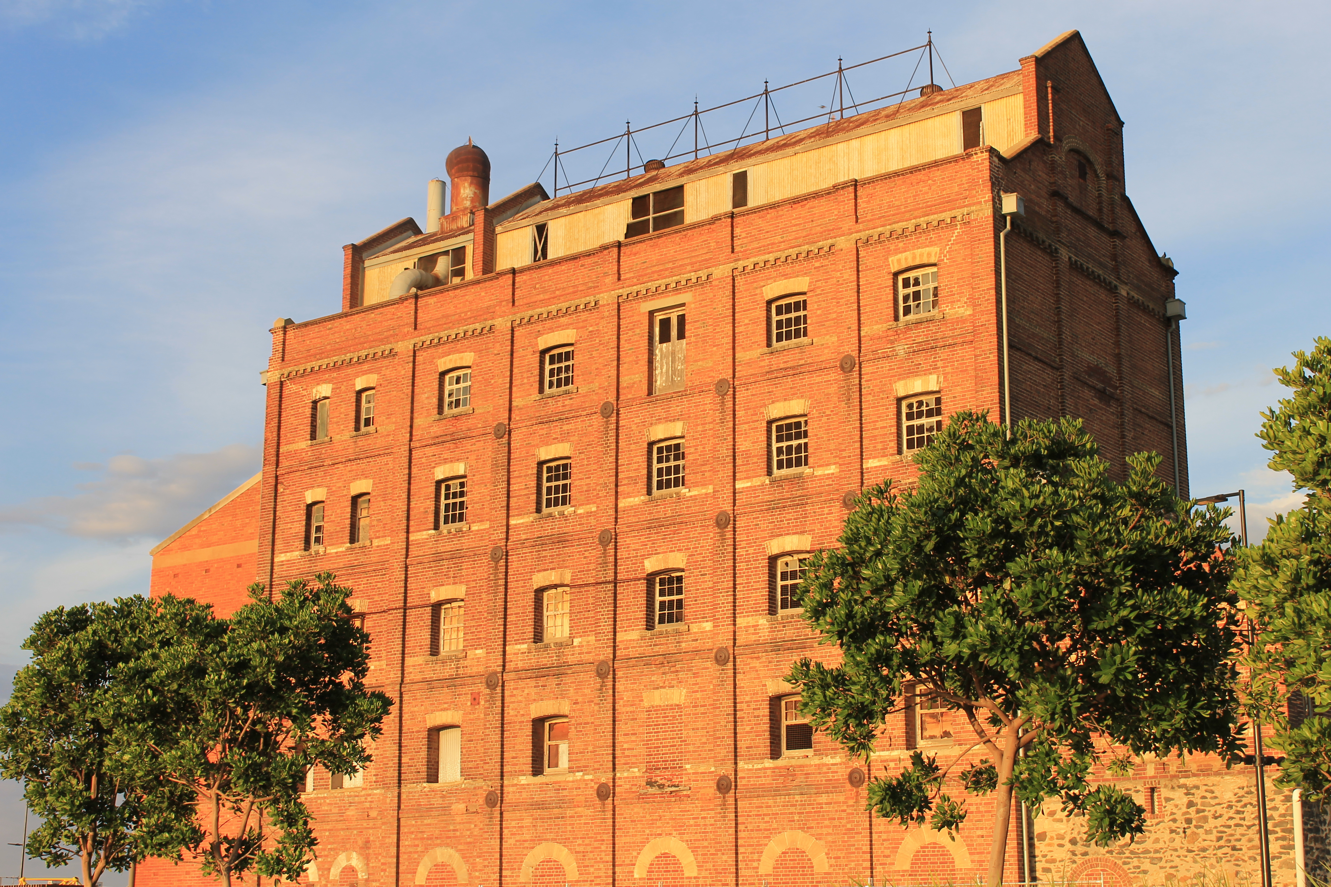 Built in c.1855, the building was the largest and most technologically advanced mill in South Australia and at the time was claimed to be the best in the southern hemisphere. It was designed to create an export market for the State's produce, and successfully shipped flour all over the world.